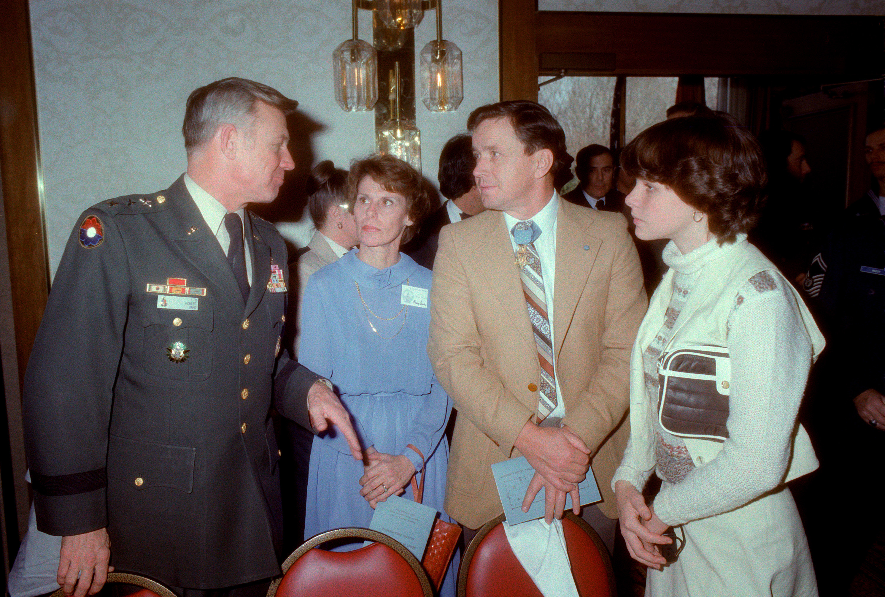 Lieutenant General Robert Gard talks with Colonel Pat Brady, U.S. Army, Medal of Honor recipient in January 1968, during a special dinner held in honor of Medal of Honor recipients on Inauguration Day.